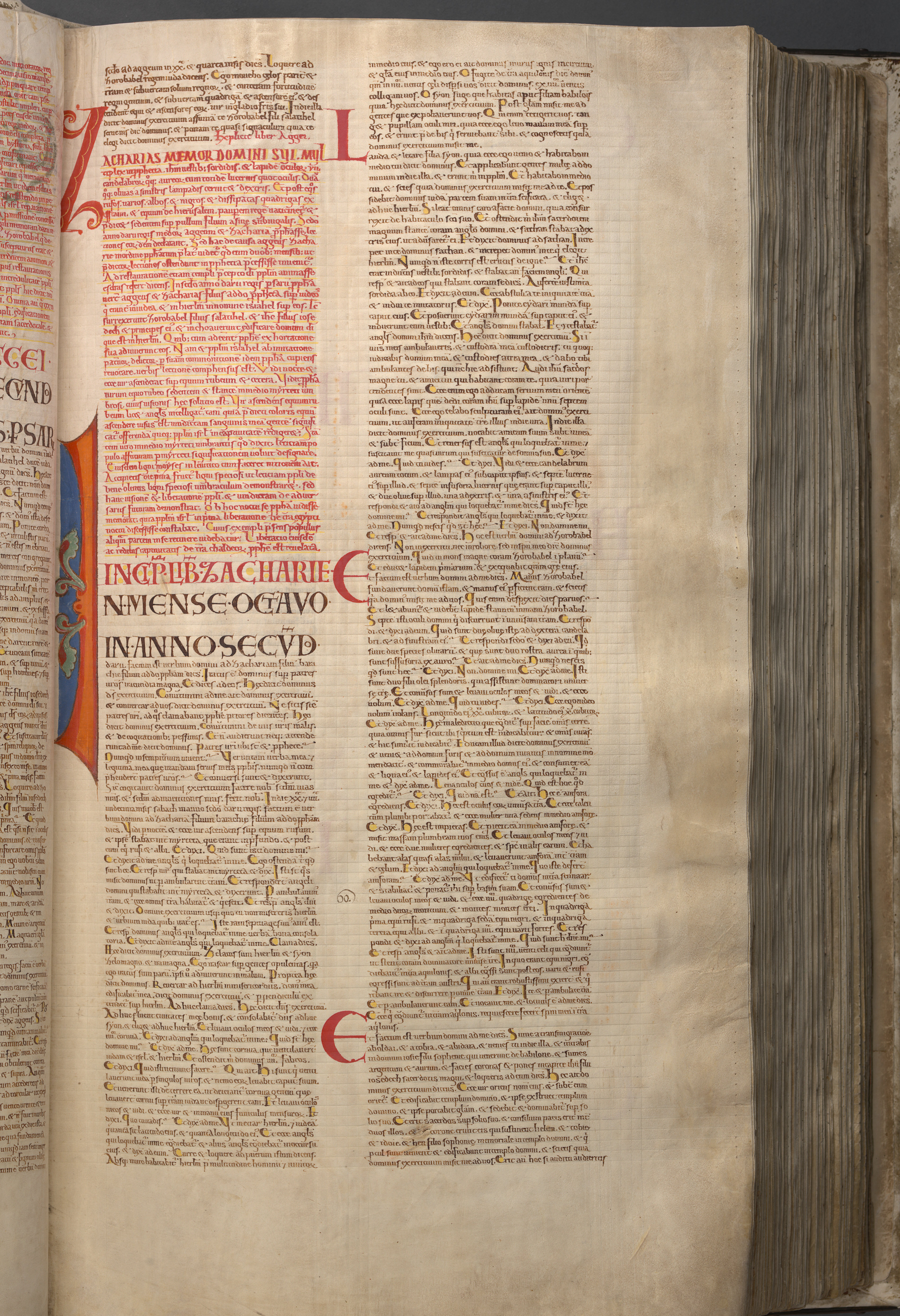 Giant Book) is the largest extant medieval manuscript in the world. It is also known as the Devil's Bible because of a large illustration of the devil on the inside and the legend surrounding its creation. It is thought to have been created in the early 13th century in the Benedictine monastery of Podlažice in Bohemia (modern Czech Republic). It contains the Vulgate Bible as well as many historical documents all written in Latin. During the Thirty Years' War in 1648, the entire collection was taken by the Swedish army as plunder, and now it is preserved at the National Library of Sweden in Stockholm, though it is not normally on display. This page contains the last part of the book of Haggai and the first part of the book of Zechariah (1:1-6:15).